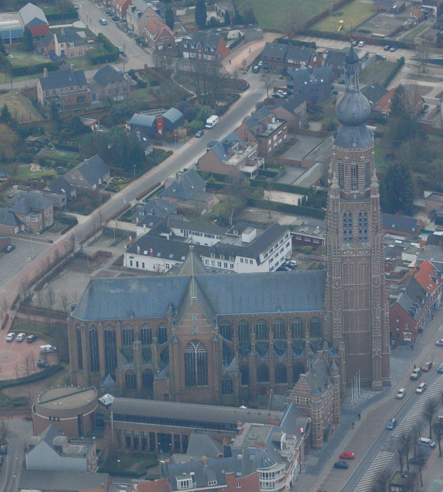 Aerial view (North face) of the church of Saint Catherine at the town of Hoogstraten, Belgium. The small building in matching style in front is the town hall. Nikon D60 f=70mm f/10 at 1/250s ISO 800. Brightness corrected and resolution reduced using Nikon ViewNX 1.0.3. Reframed using Adobe Photoshop 4.0.